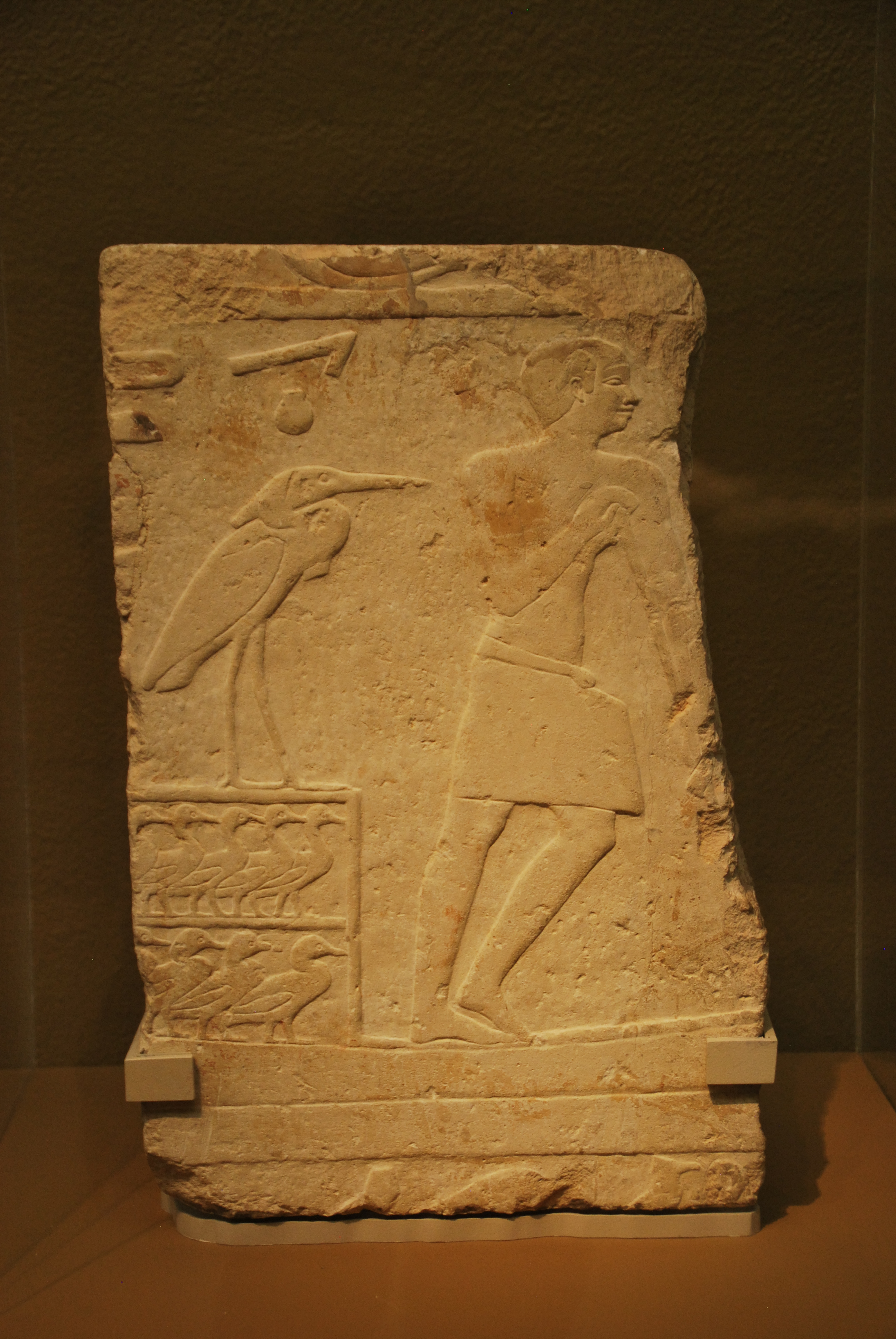 Relief from the tomb of Prince Kawab from Giza, tomb G 7120; Egyptian, Old Kingdom, Dynasty 4, reign of Khufu, 2551–2528 B.C.; Height x width x depth: 55.2 x 36.8 x 20.9 cm (21 3/4 x 14 1/2 x 8 1/4 in.); Accession Date: December 1, 1924, Accession Number: 34.59; Details.